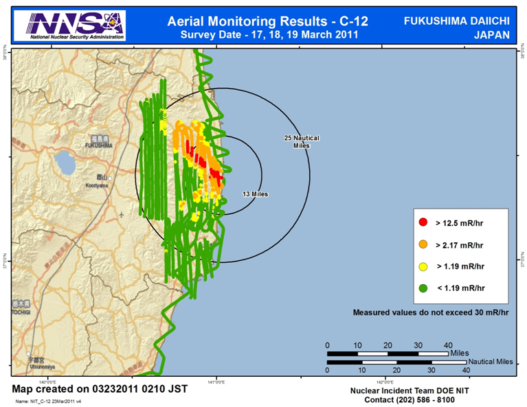 Aerial survey by the US DOE and NNSA, in cooperation with the DoD, using their equipment and air force bases in Japan. EPA's evacuation guideline is above 2 mR/hr (with radioiodines)which is 0.02 mSv/hr. Main site for the work. It is the belief of the uploader that the website clearly indicates that the image is exclusively the work of US federal agencies for which the marked license applies.